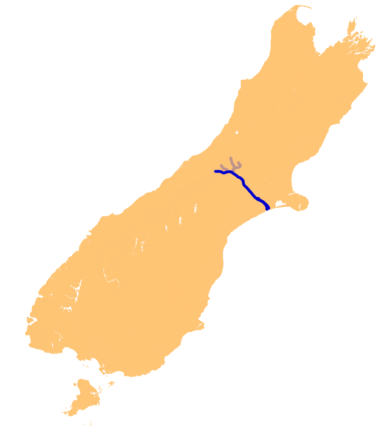 Location map of the Rakaia River, New Zealand